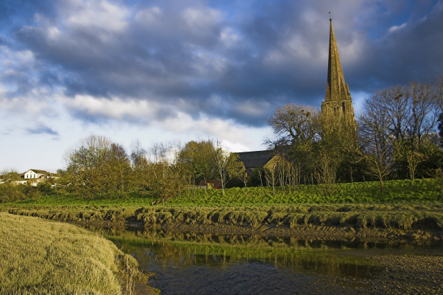 St Mary's Church, Kidwelly. Taken from the old mill across the river from the church.